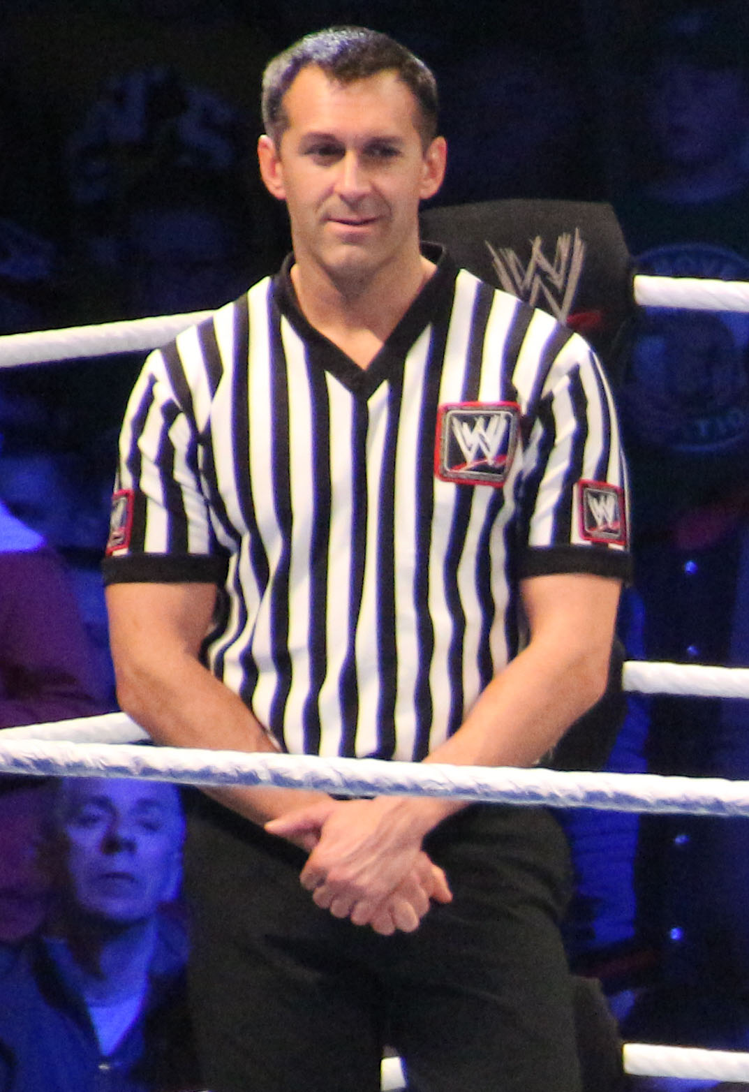 WWE referee John Cone standing in the ring before officiating a match at a WWE live event in Glasgow.